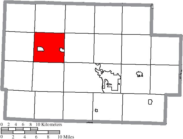 Map of the municipal and township boundaries of Coshocton County, Ohio, United States, as of the 2000 census, with the location of Jefferson Township highlighted. Township borders are shown only in unincorporated areas in order to differentiate incorporated and unincorporated areas more clearly.